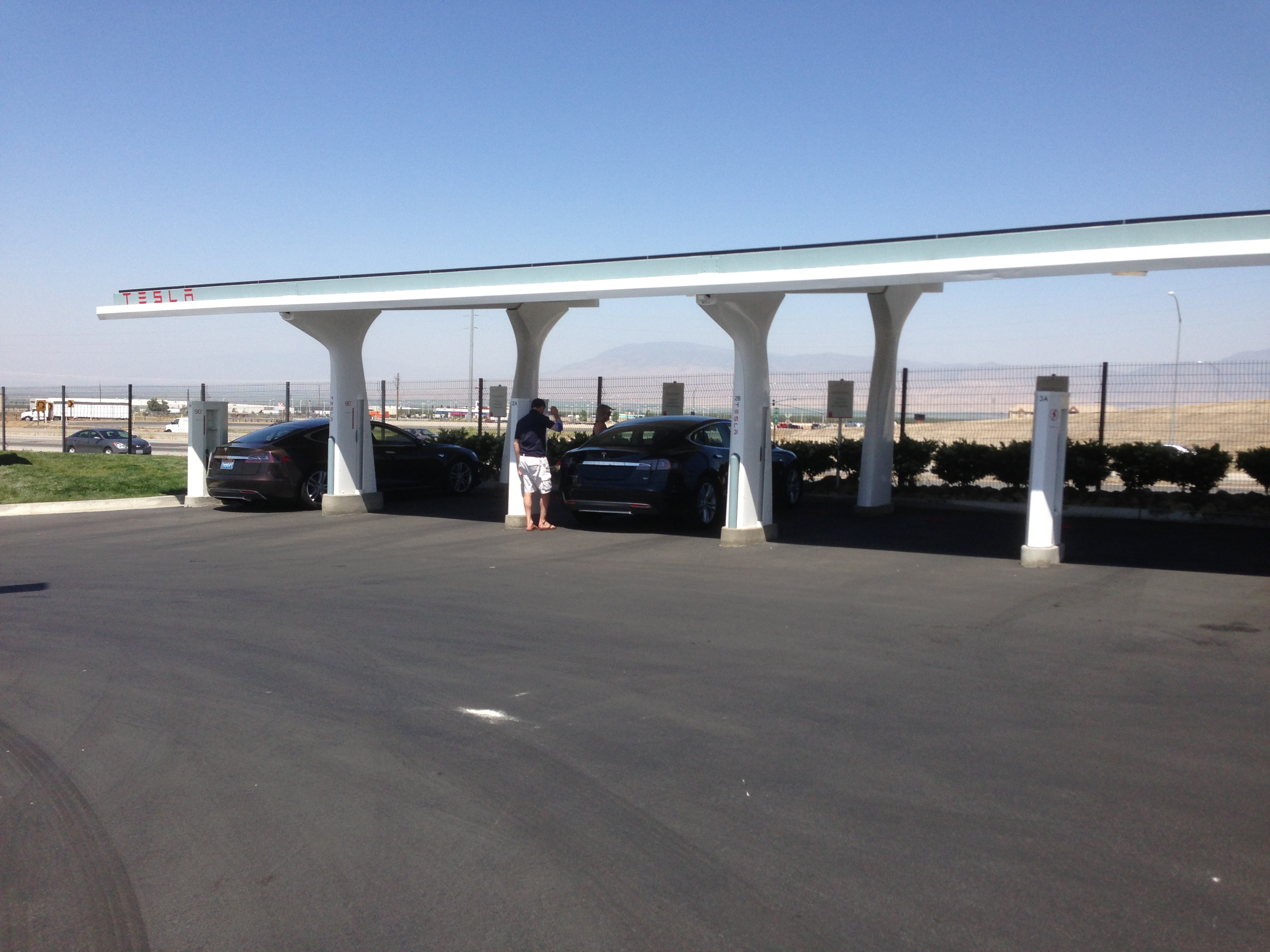 A Tesla charging station with a rooftop solar collector feeding energy into the grid (not directly into the pictured Model S electric cars) that is manufactured by Solar City. This station, one of a number, is located in Tejon Ranch, California, USA, on the I-5 freeway about 100 miles north of Los Angeles.